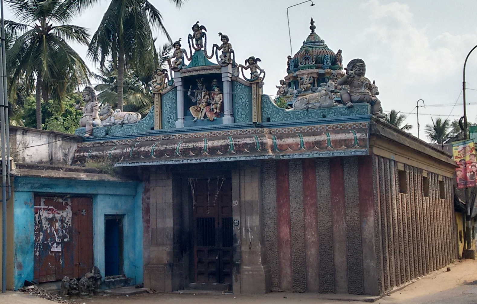 கும்பகோணம் பேட்டைத்தெரு விநாயகர் Kumbakonam Pettai Street Vinayaka